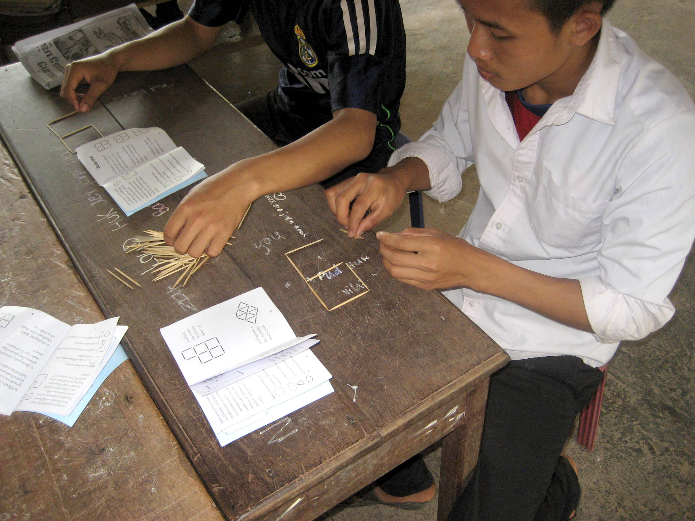 Toothpick puzzles involve making a pattern from a few toothpicks, then adding, removing, or moving a few, to attain another shape or goal. In this photo, the book shows an arrangement of five squares. The challenge is to move exactly three toothpicks to a different location, so as to create three rectangles, all the same size. This is one of several games and puzzles that Big Brother Mouse, a literacy project, offers at its "Discovery Days" in Lao schools and youth centers. The events also include science experiments, fossils and minerals to examine, and number games.